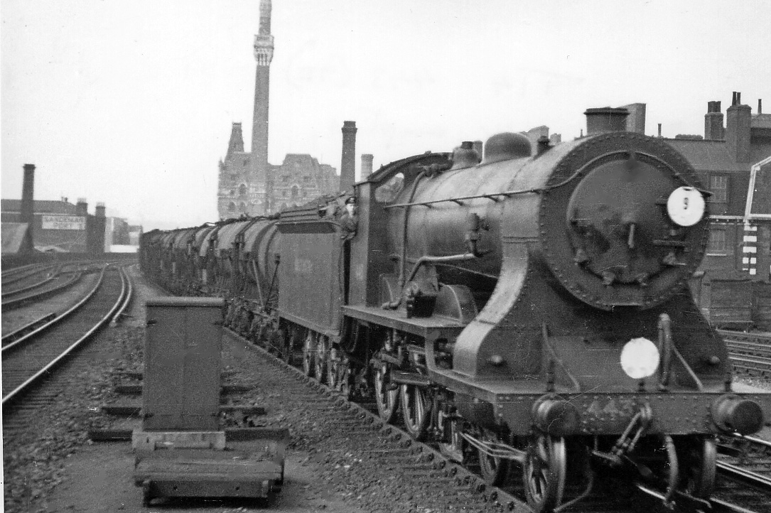 Down Milk empties approaching Vauxhall. View northward, towards Waterloo. After being unloaded, by pipes from Vauxhall Station (Windsor Line side) direct to the big United Dairies Depot, the tankers were worked up to Waterloo to reverse and then return to the West Country via Salisbury. Here the locomotive is ex-LSW Drummond class T14 'Paddlebox' 4-6-0 No. 443 (the first, built 3/1911, withdrawn 5/49). [What was the building with the prominent tower?] EDITORS NOTE: I am informed by Lambeth Archives that it is "the chimney of the Doulton pottery works . . . It stood on the Albert Embankment between Vauxhall and Lambeth bridges. The company relocated to Stoke on Trent in the 1950s and the building was then demolished."